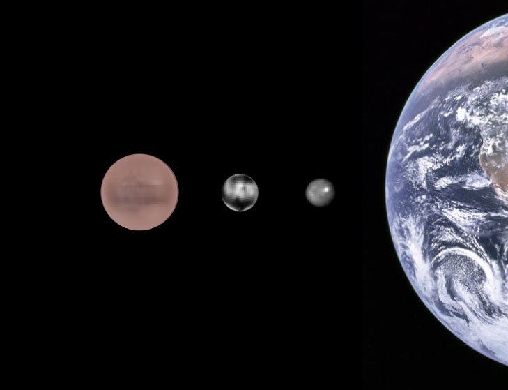 Three Proposed planets: Eris Charon Ceres Earth (for scale). Recreated, based on IAU image showing the three objects that would be classified as planets. Created entirely from free sources and using publicly available information. The image of Earth is the blue marble image. Charon and Ceres were taken from Wikipedia on August 21 2006. The image of Eris is based on the image of Pluto, and has been imaginatively colorized (There are no images of Eris that show surface features).